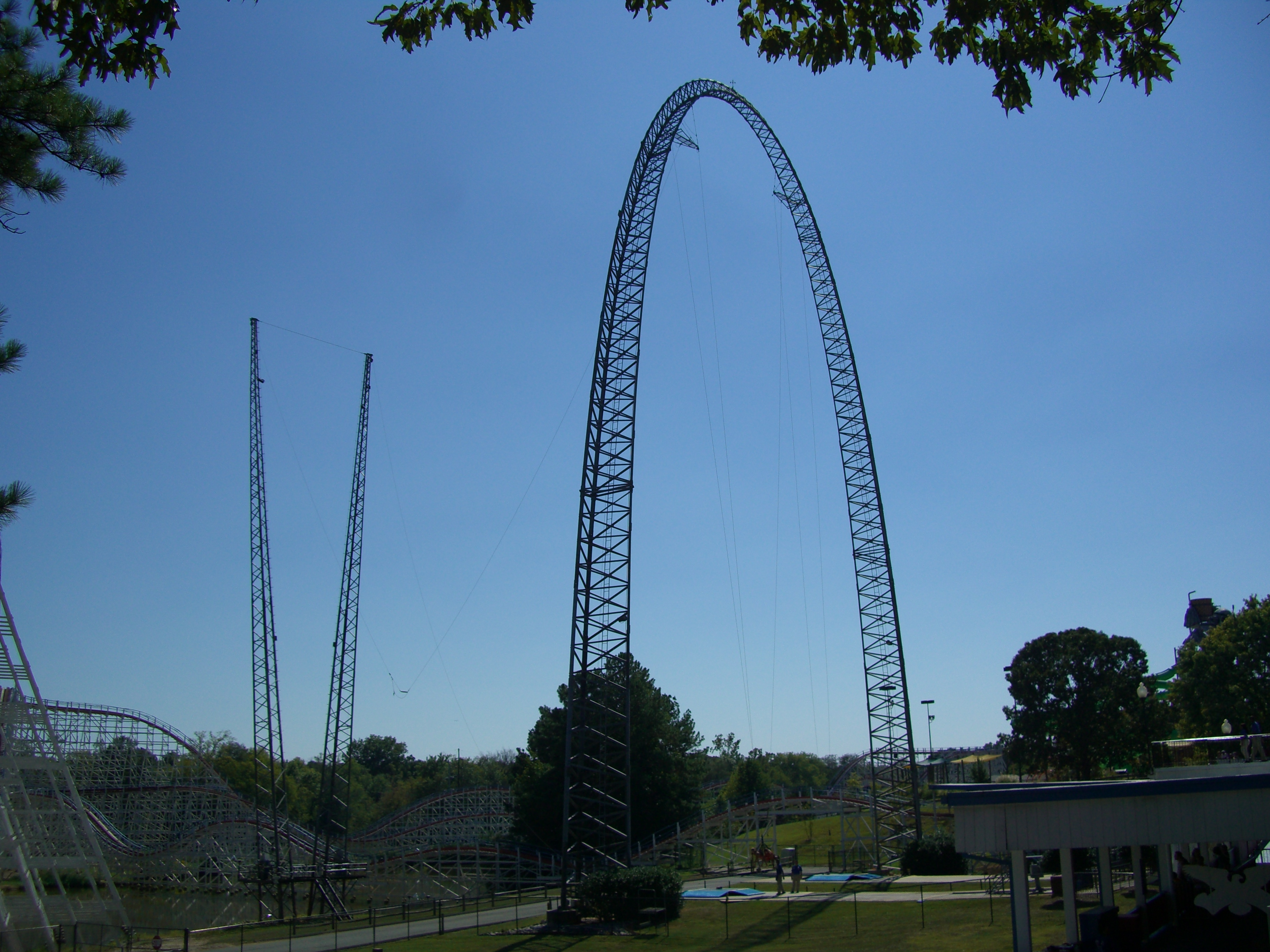 Fearless Freeps Dare Devil Dive at Six Flags Over Georgia. The only requirement of this license is that you give me credit, otherwise the image is free.